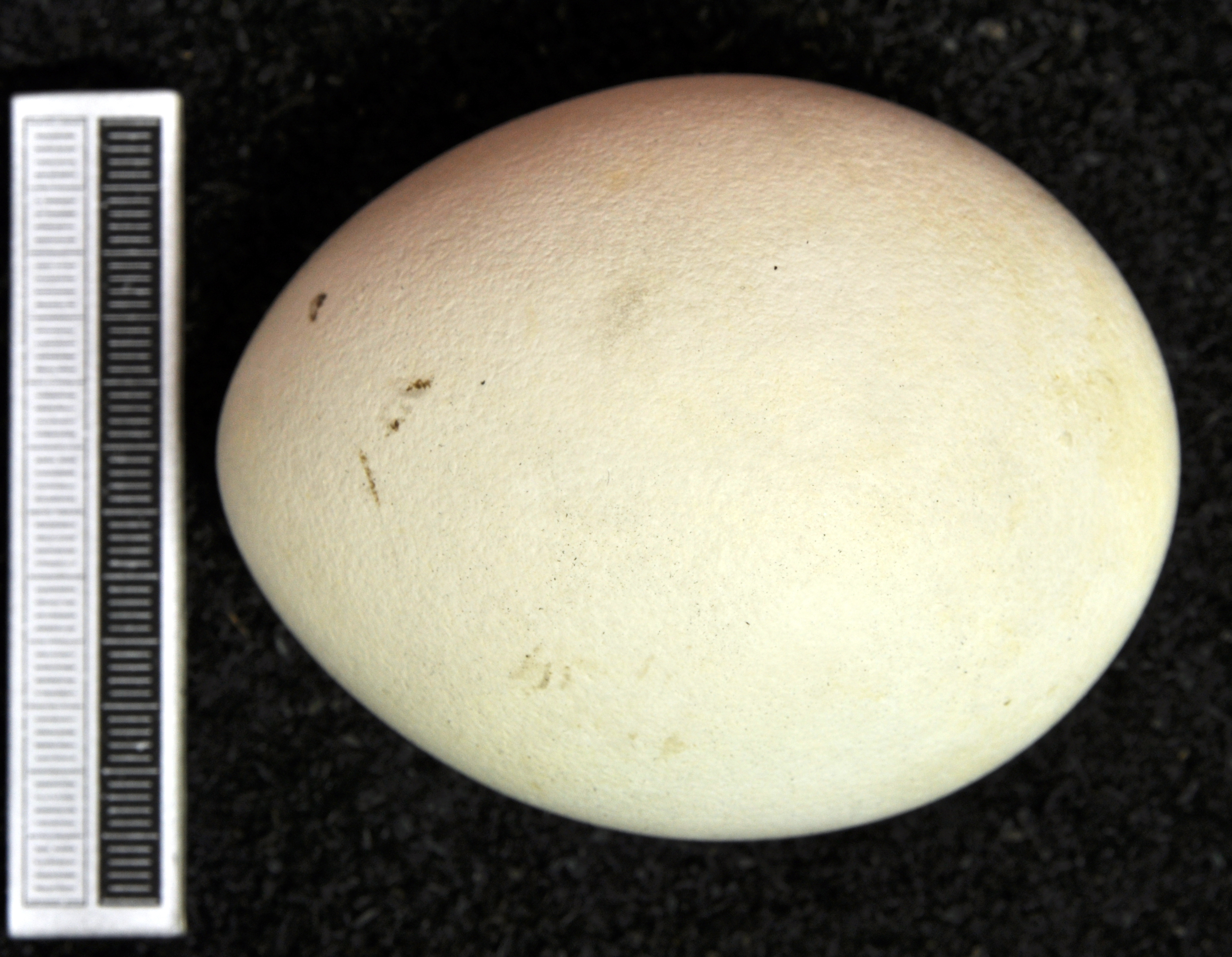 Bald eagle Haliaeetus leucocephalus , egg, Coll. Museum Wiesbaden